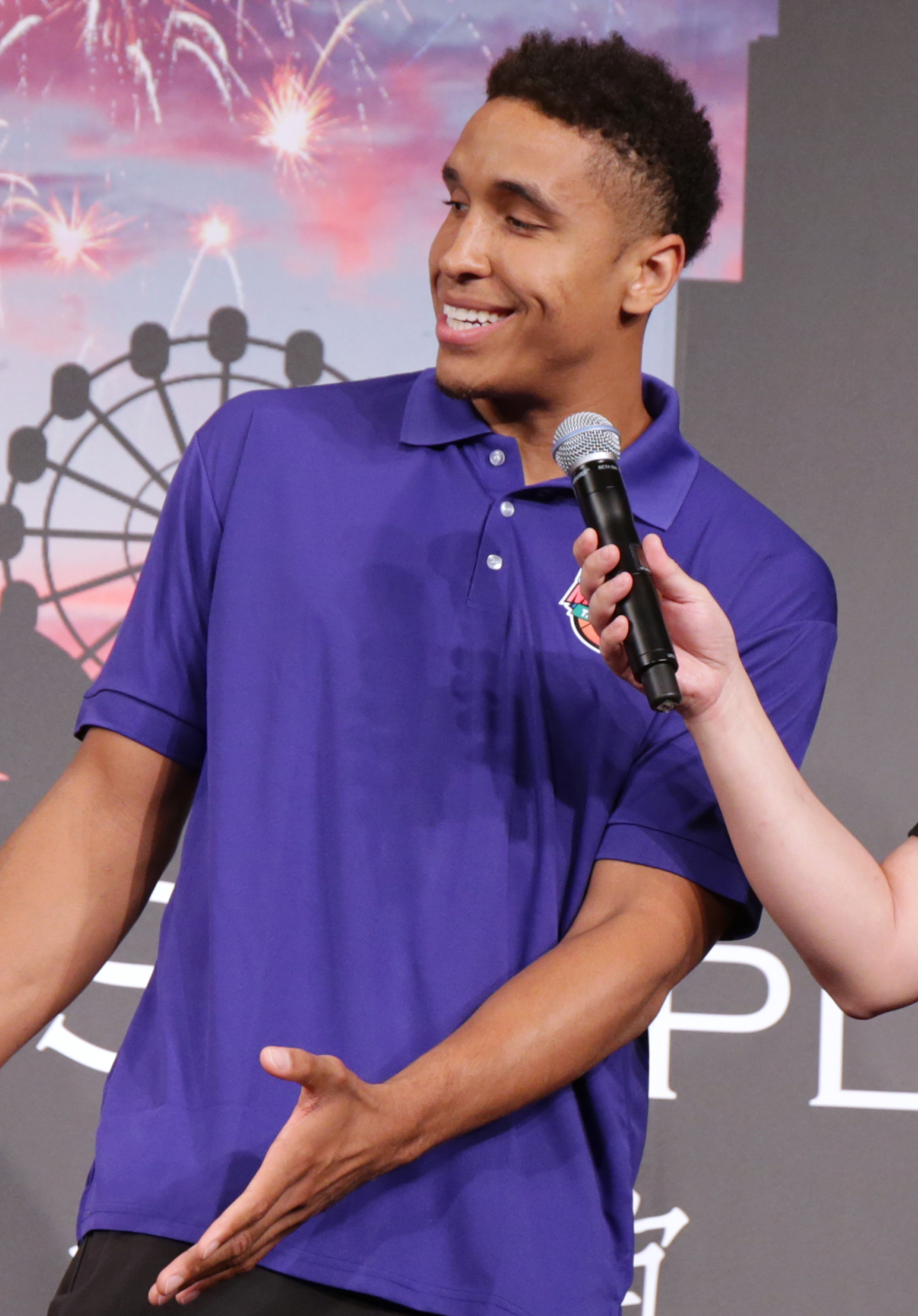 Malcolm Brogdon in Taiwan, June 2017